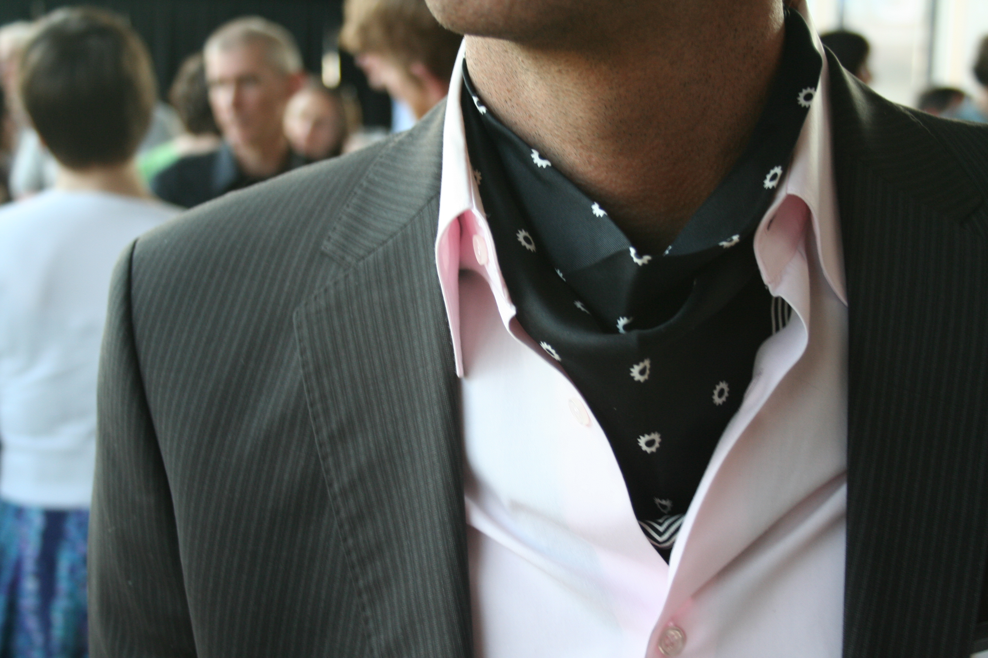 A detail of a man wearing an ascot tie.